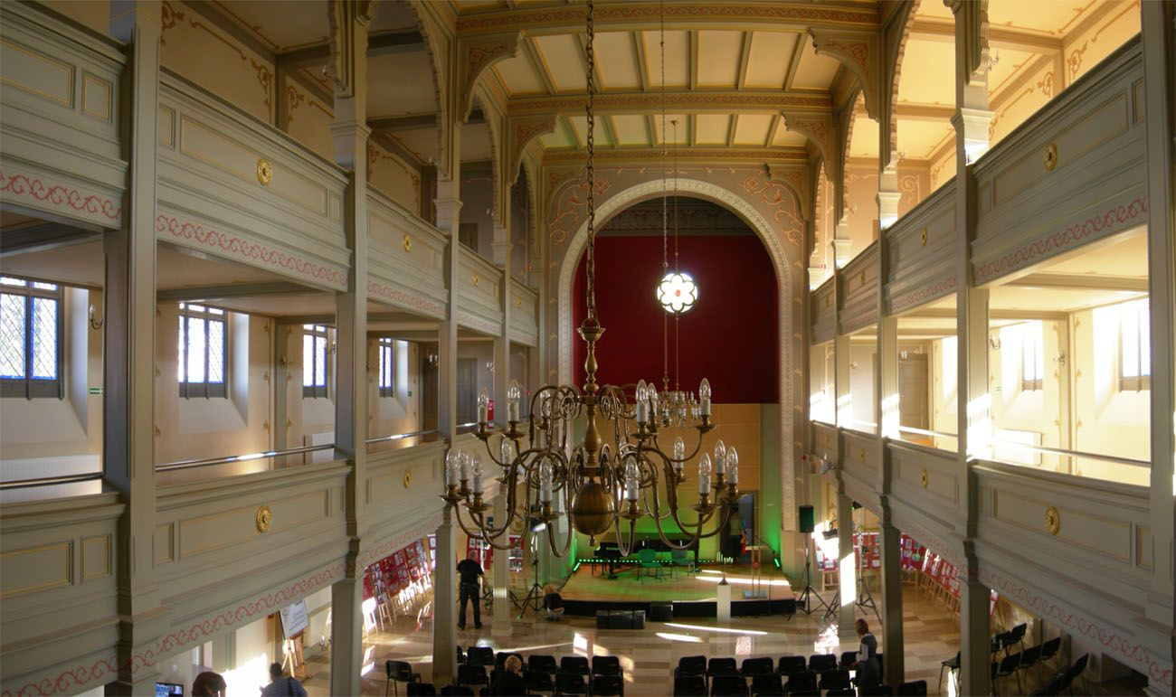 Interior of the synagogue after renovation